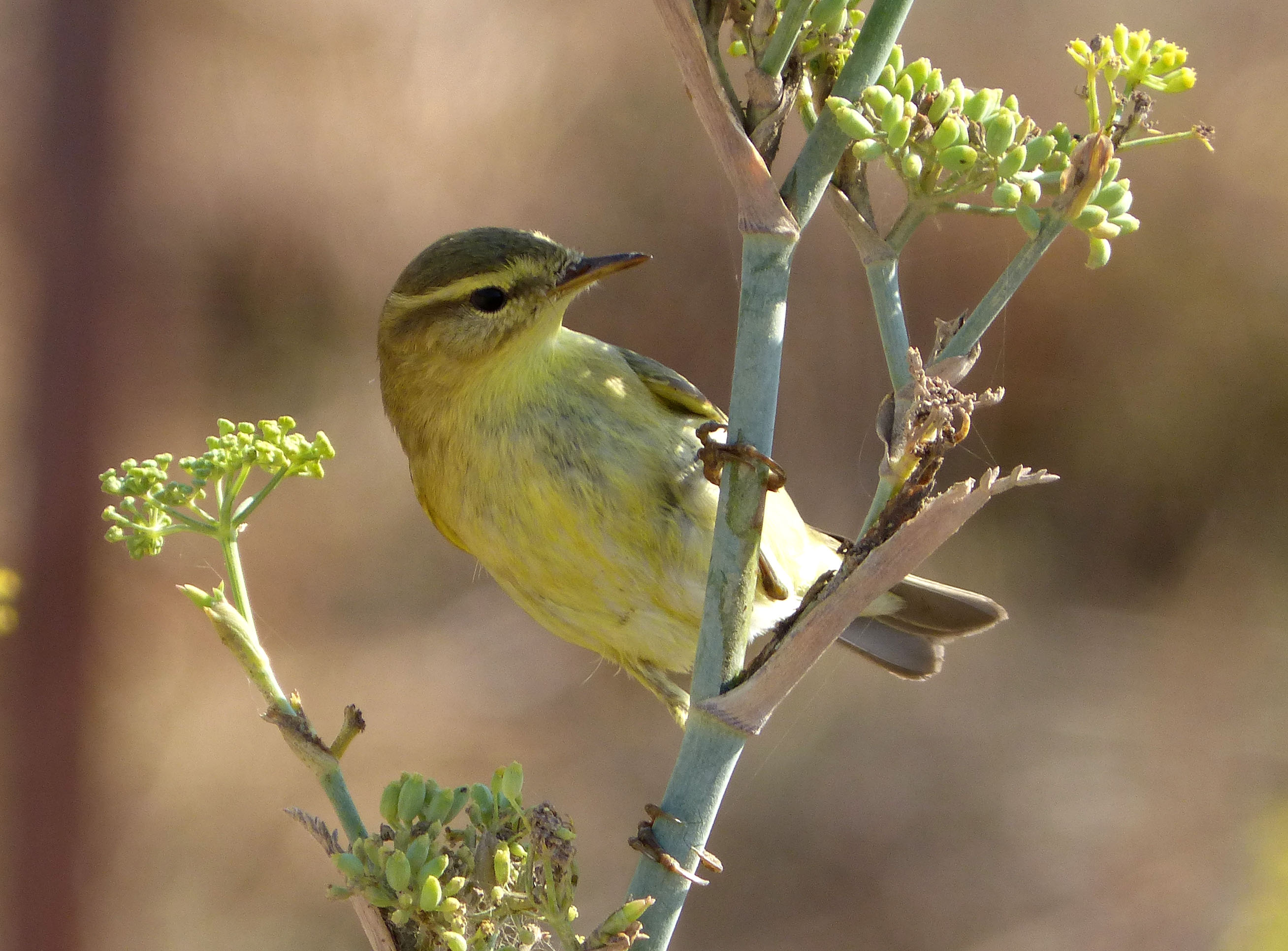 Willow Warbler. Phylloscopus trochilus.